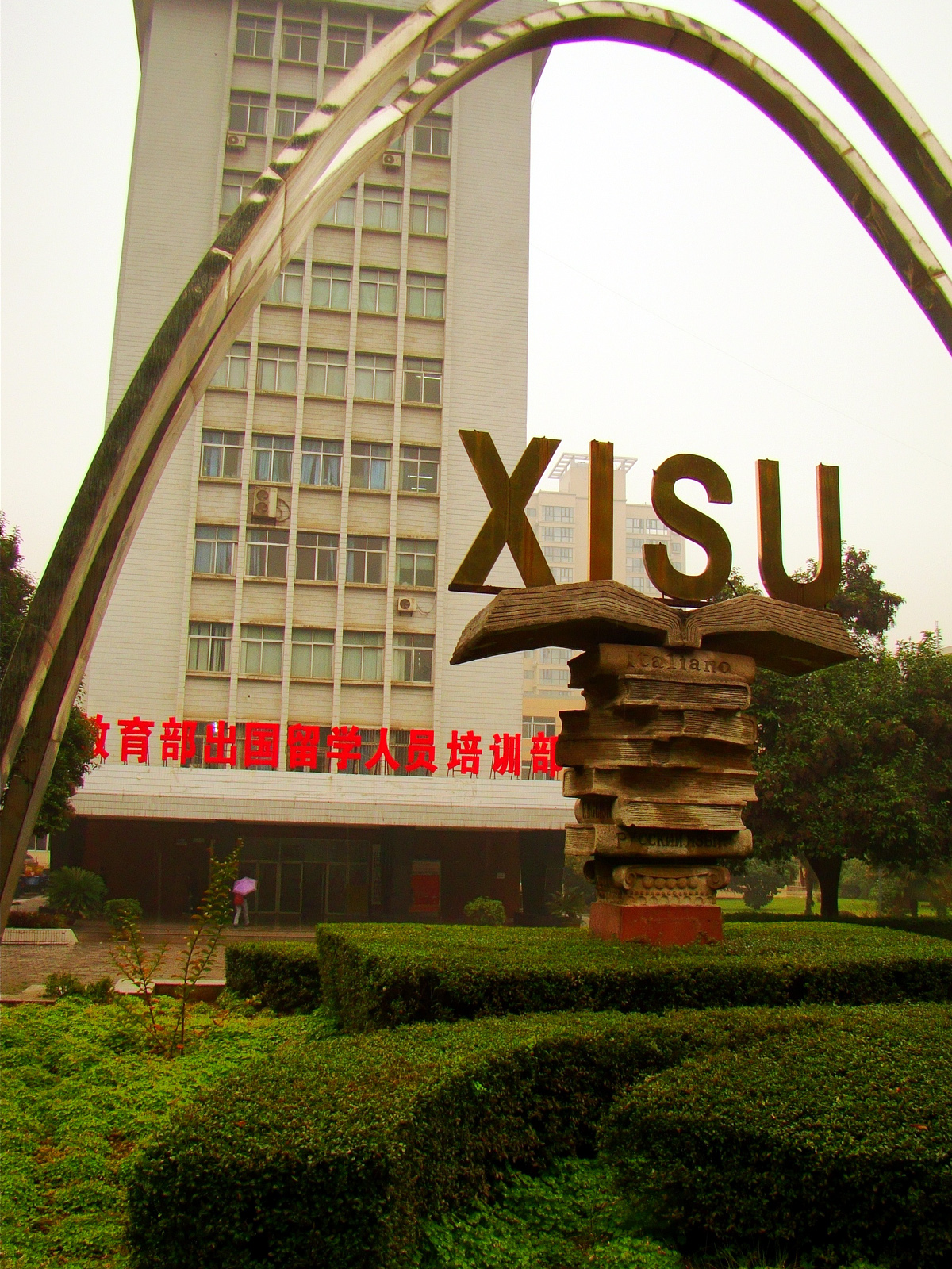 Main entrance into the Campus of the Xi'an International Studies University.